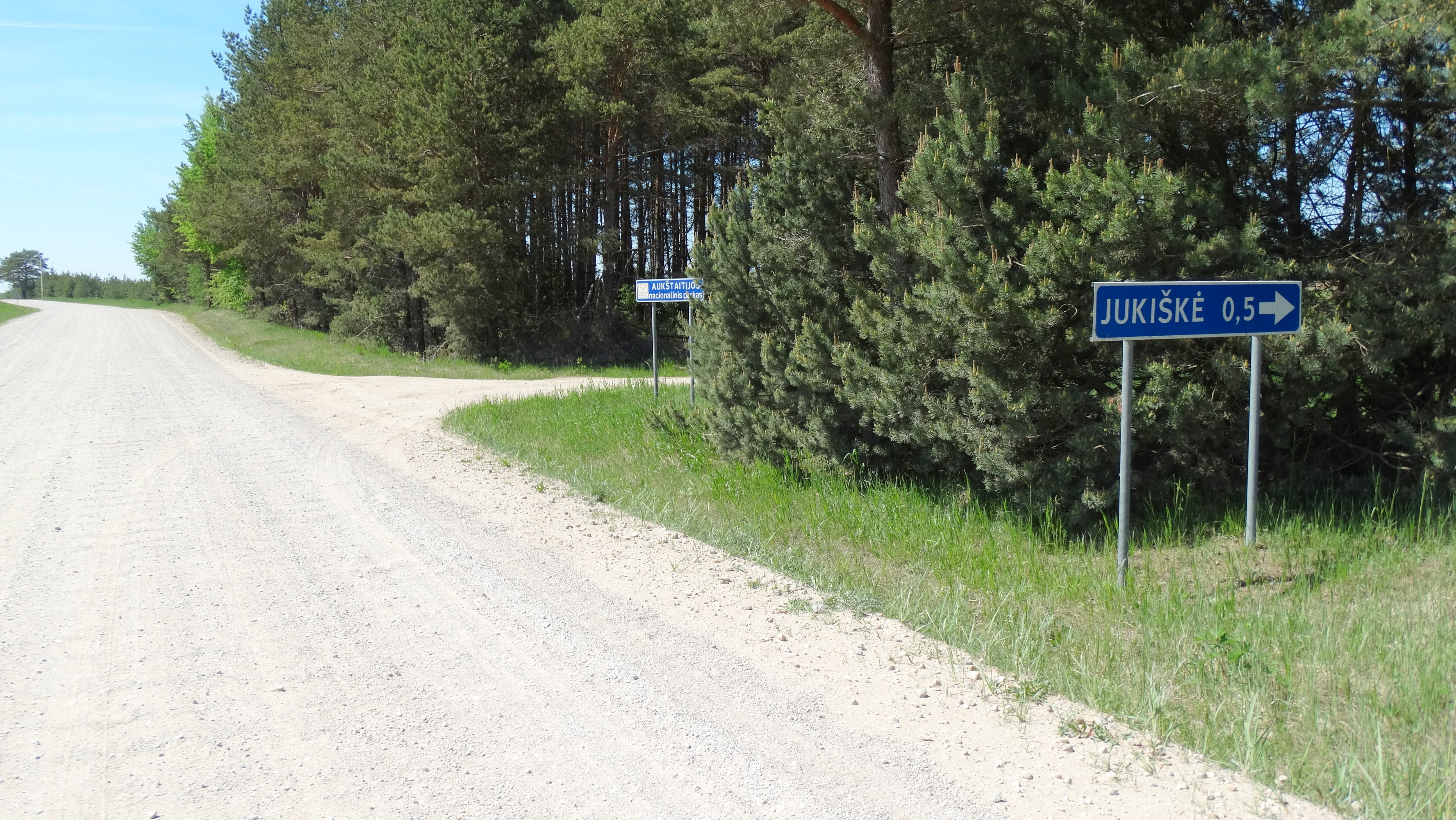 Jukiškė, Švenčionys District, Lithuania